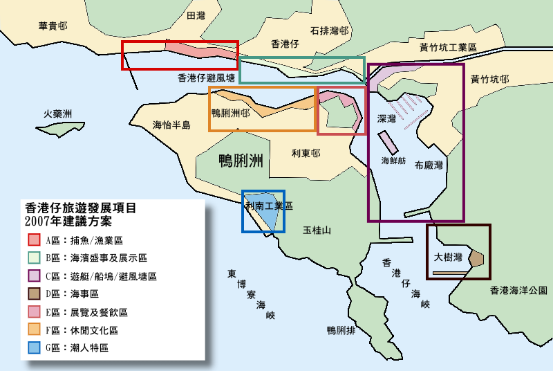 Proposed Design of Aberdeen Fisherman's Wharf, Hong Kong (2007 version) (in Traditional Chinese)